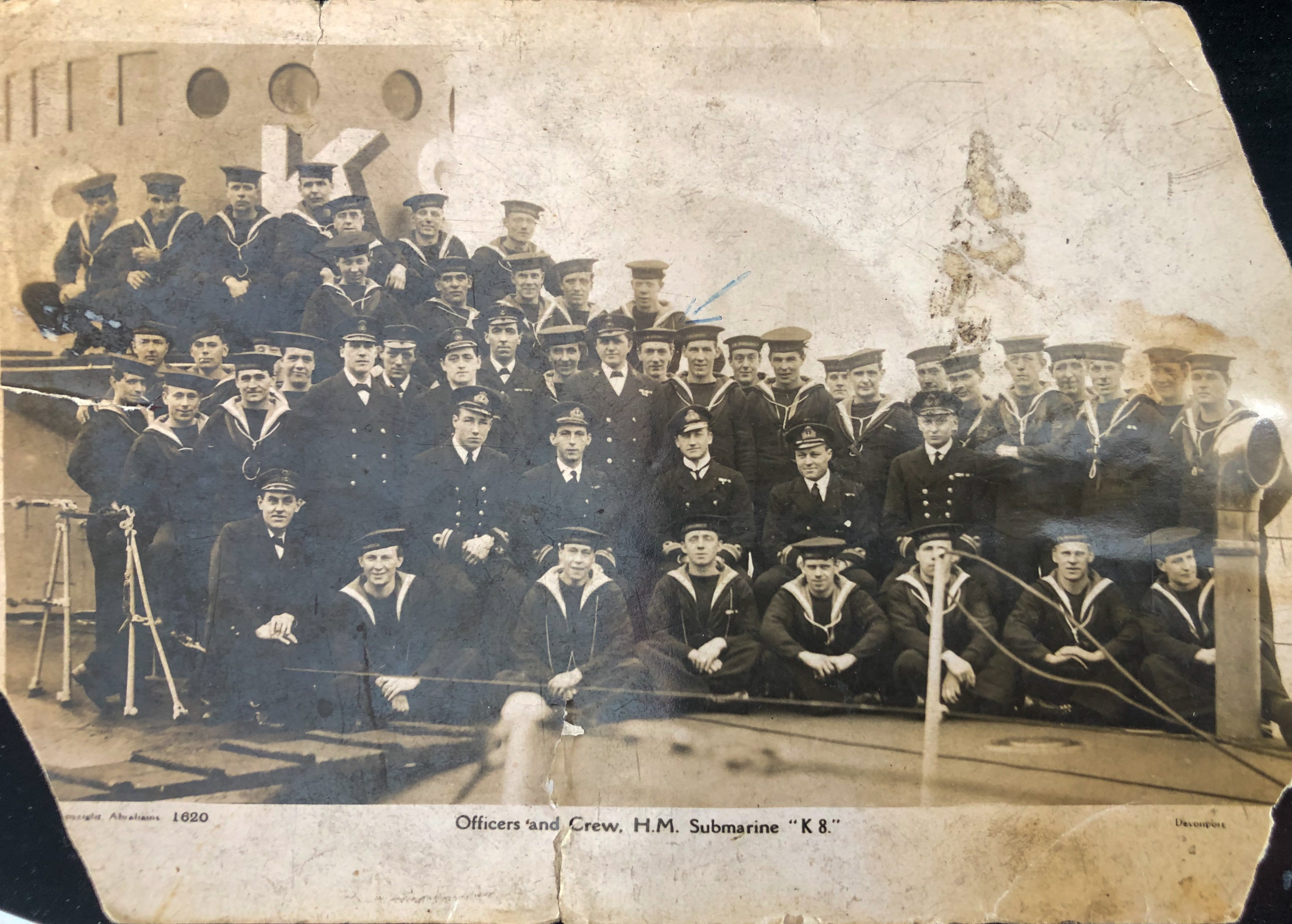 K8 submarine and crew